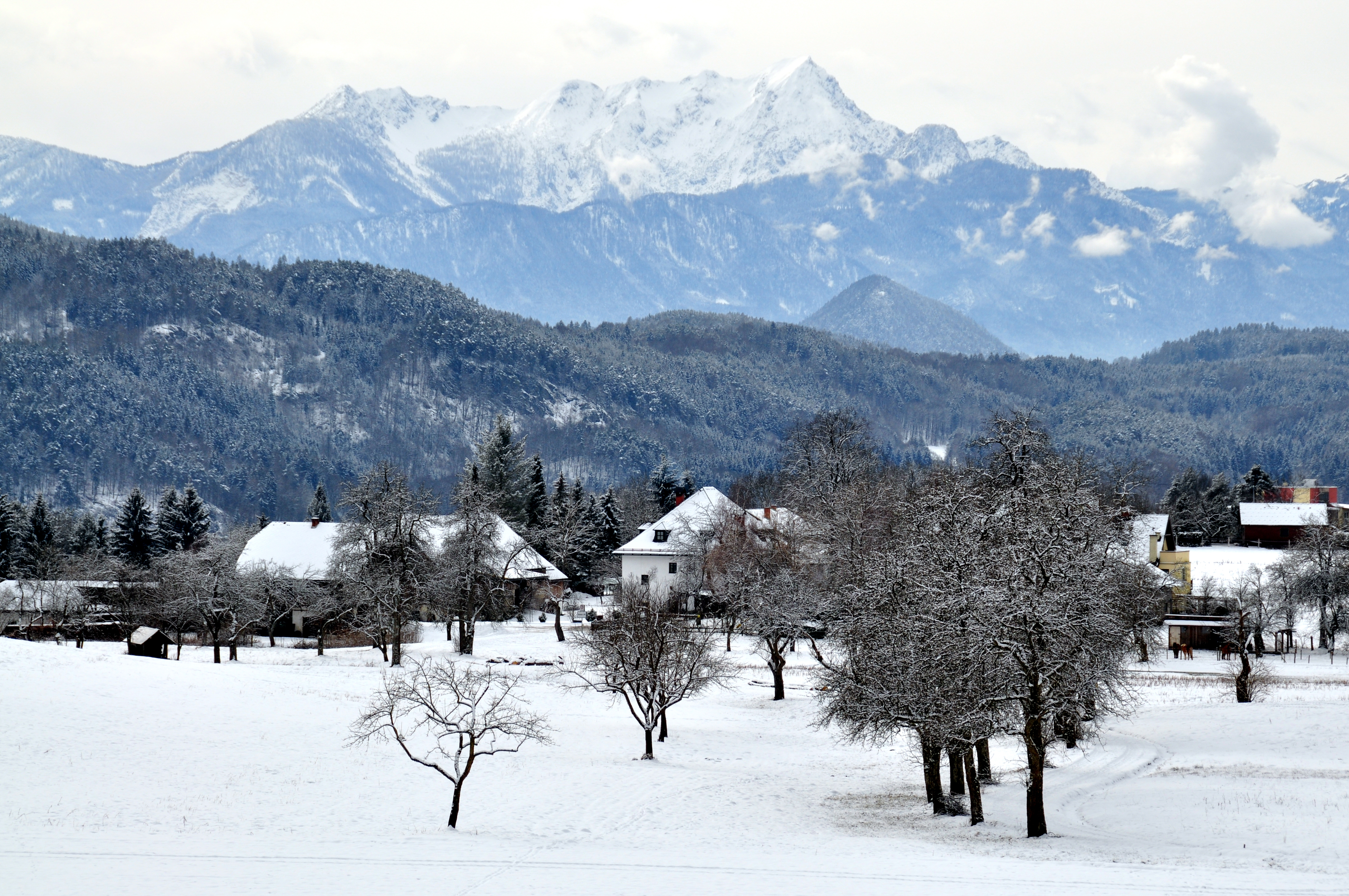 Hamlet Winklern on the Gaisrueckenstrasse and the mountain "Mittagskogel" in the background, community Poertschach on the Lake Woerth, district Klagenfurt-Land, Carinthia, Austria